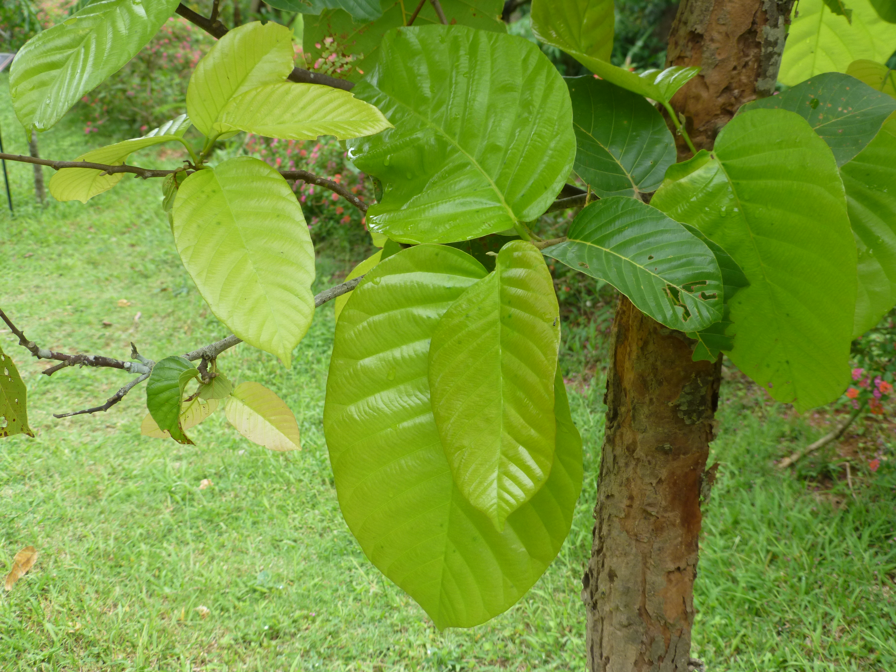 at the Queen Sirikit Botanic Garden - Chiang Mai in 2013 Shorea robusta